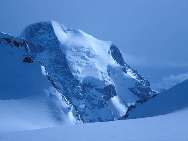 Mt. Sir Sandford taken from Gothics Glacier to the North. Photo by Trevor Holsworth 1990?